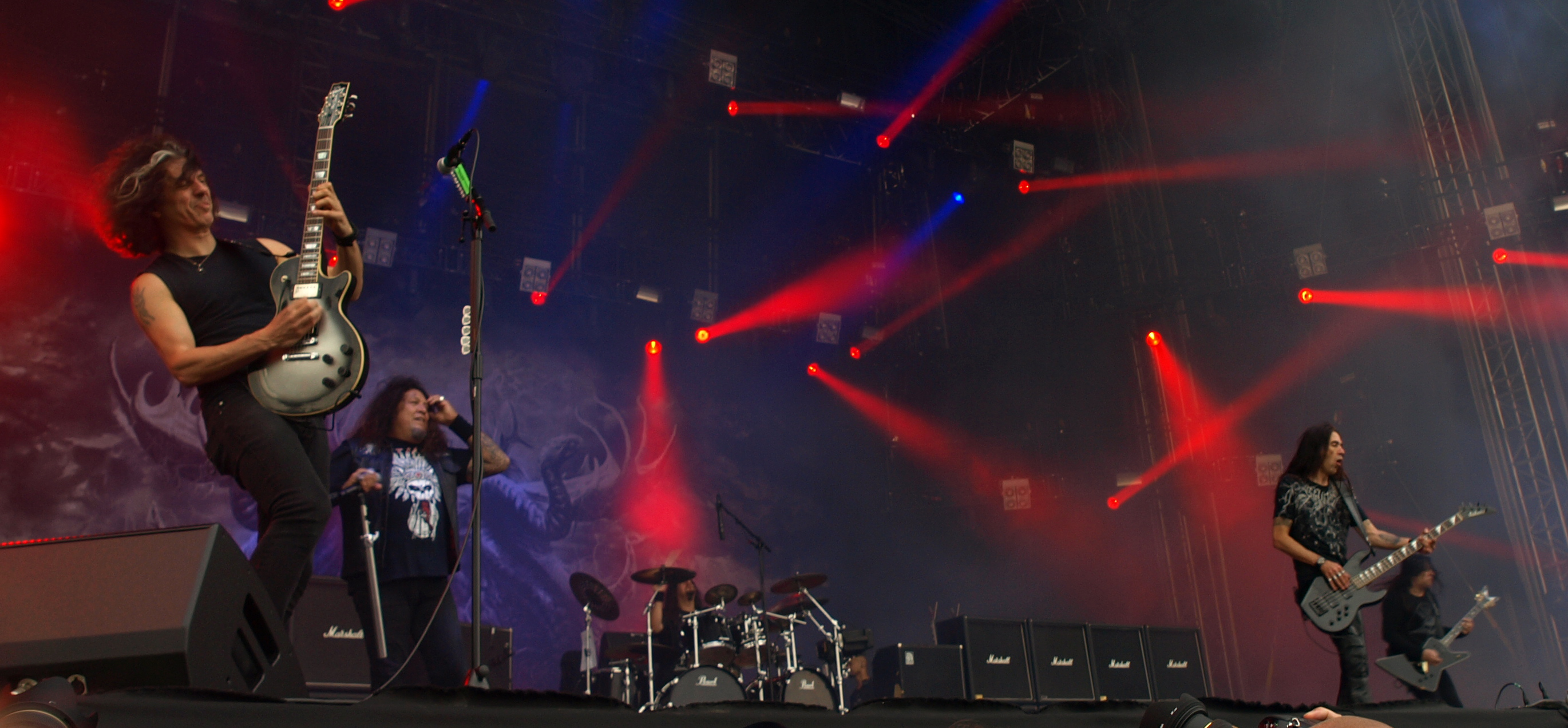 US-American thrash metal band Testament live at Tuska Open Air 2013